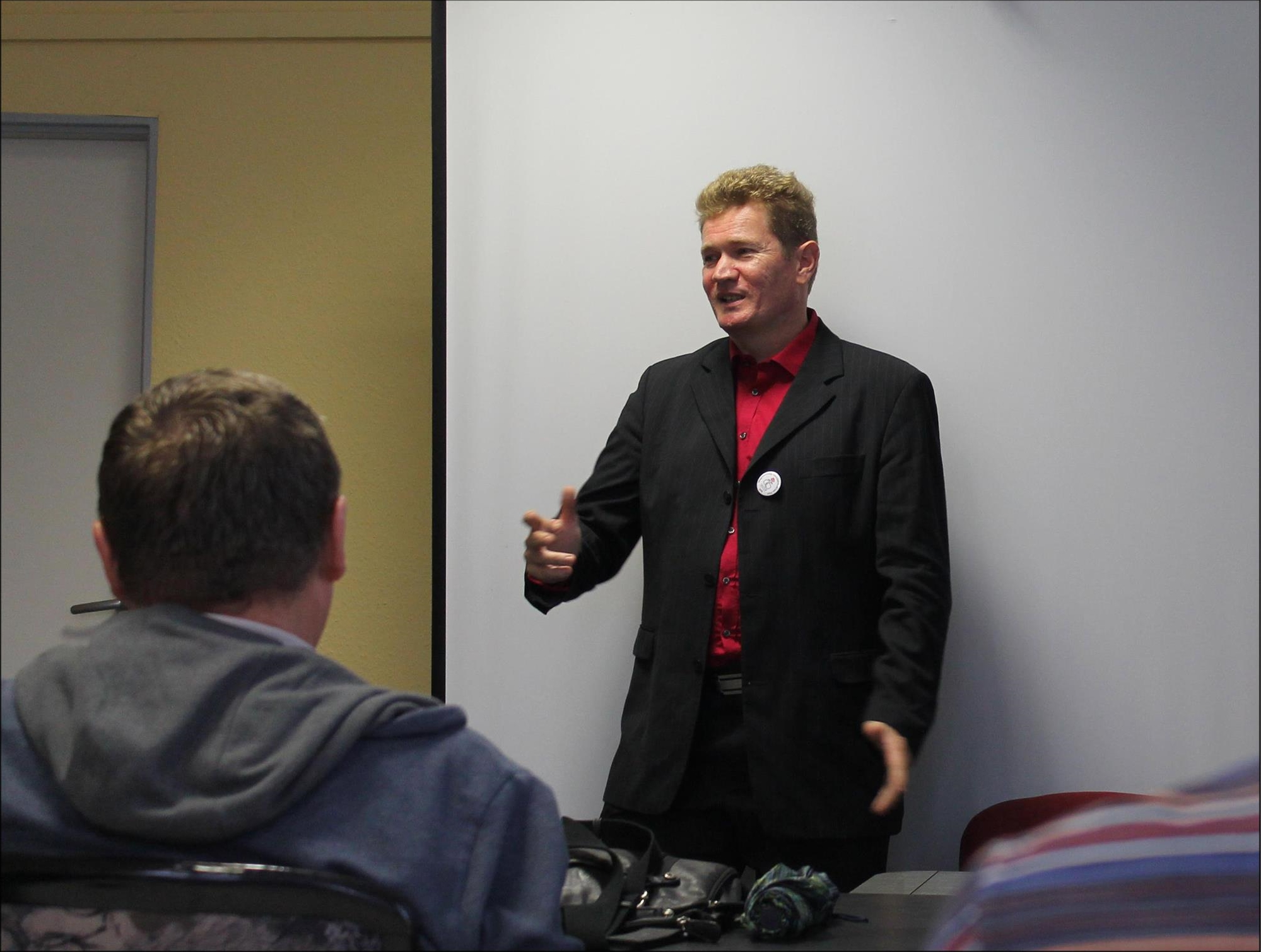 Zsolt Csiszár, the secretary-general of the Hungarian Social Democratic Party (MSZDP).